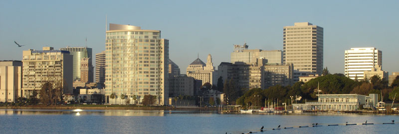 Photo taken by Aran Johnson at 07:30 am on November 23, 2005. Looking west from Lake Shore drive across Lake Merritt towards the downtown Oakland skyline.